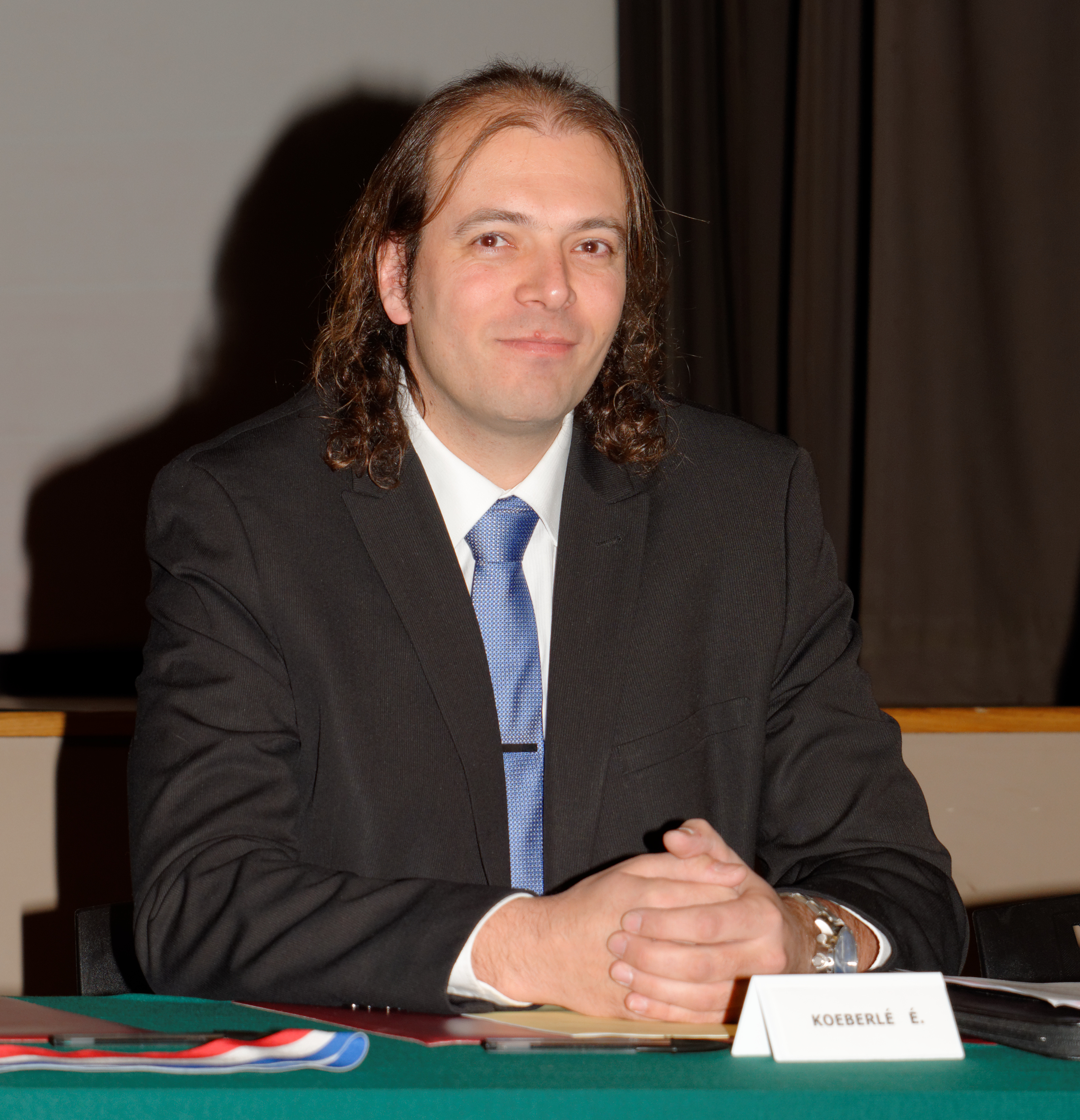 Personality rights warningAlthough this work is freely licensed or in the public domain, the person(s) shown may have rights that legally restrict certain re-uses unless those depicted consent to such uses. In these cases, a model release or other evidence of consent could protect you from infringement claims.